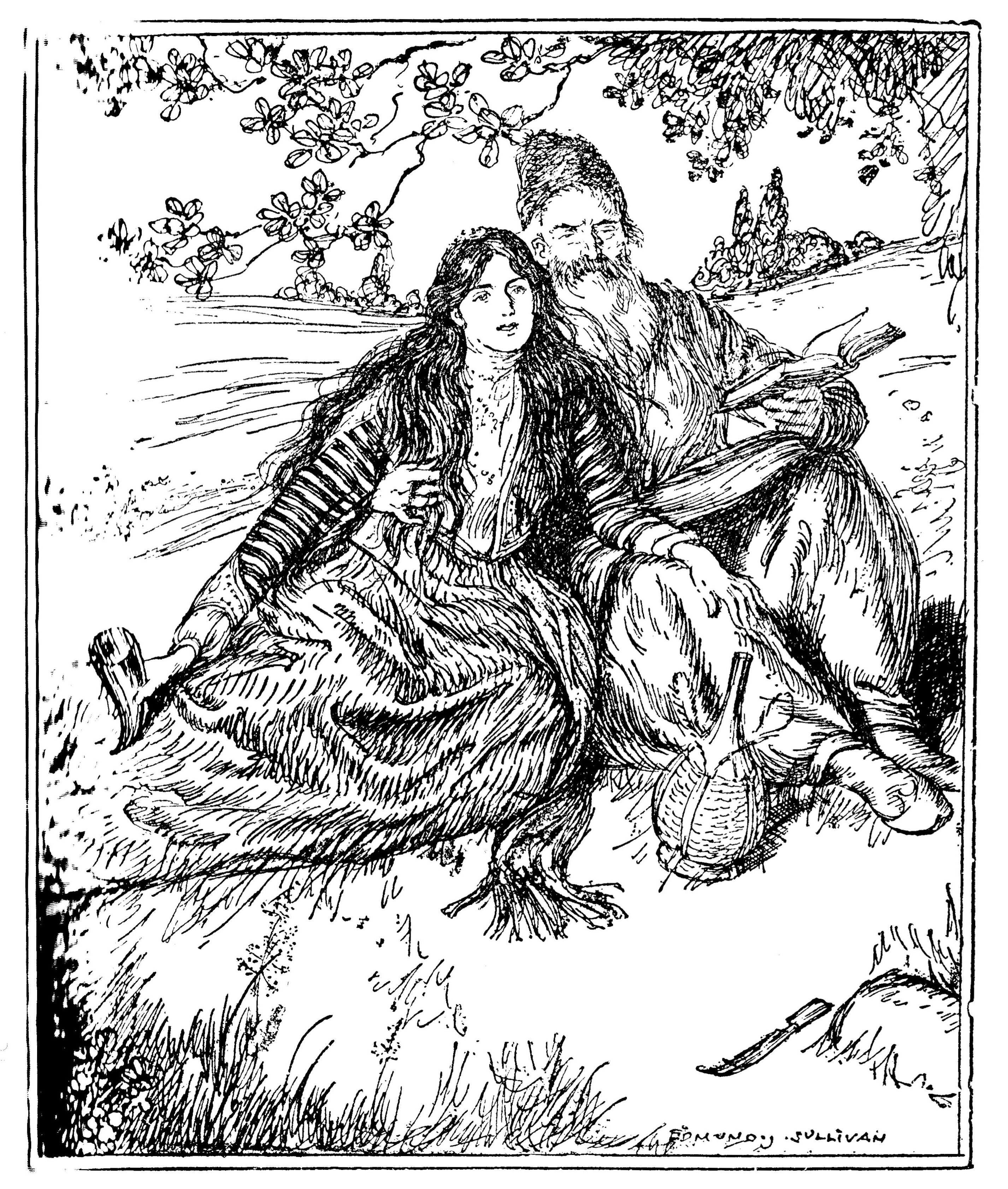 This is a quatrain illustration by Edmund J. Sullivan to the Rubaiyat of Omar Khayyam, First Version (translated by Edward Fitzgerald).